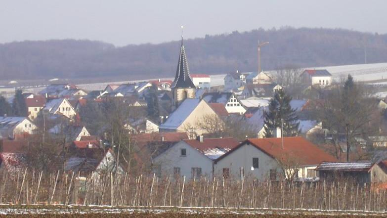 view of the village of Rielingshausen (near Marbach am Neckar, Germany) from southwest